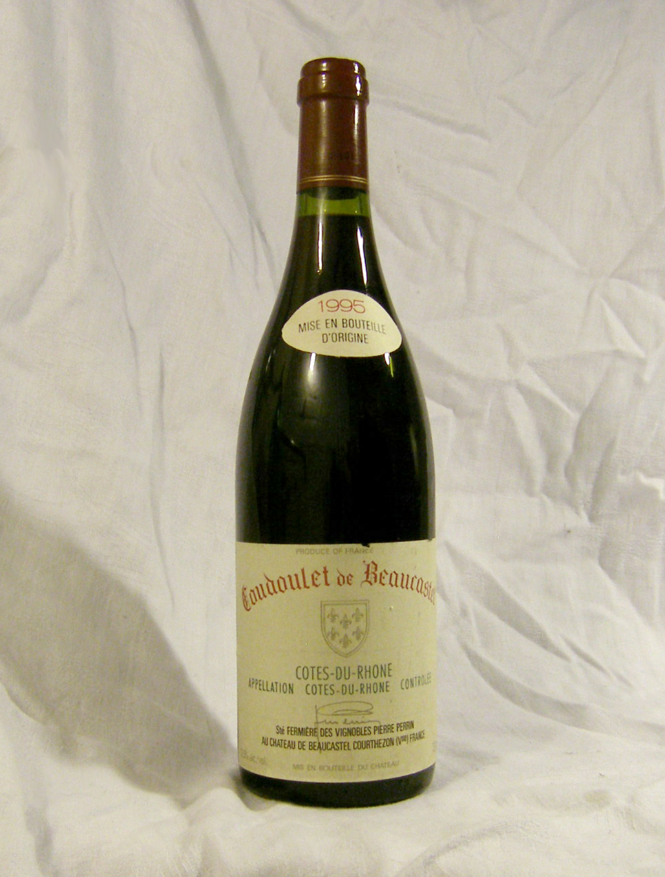 Bottle of Chateau Beaucastel, Coudulet de Beaucastel, DOC, Châteauneuf-du-Pape